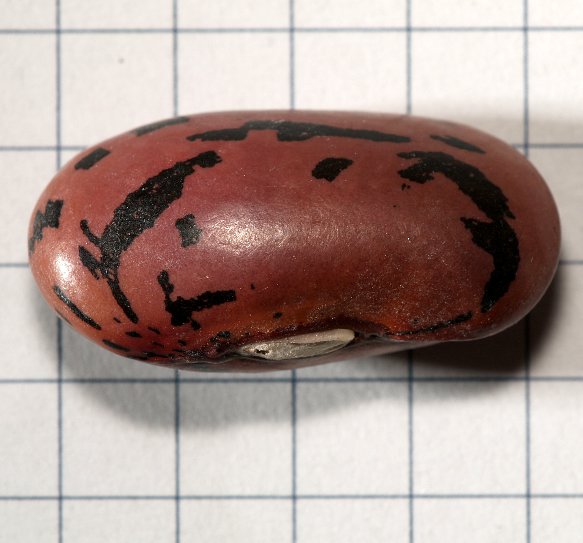 seeds of Phaseolus coccineus. Squares have a length of 5 mm.